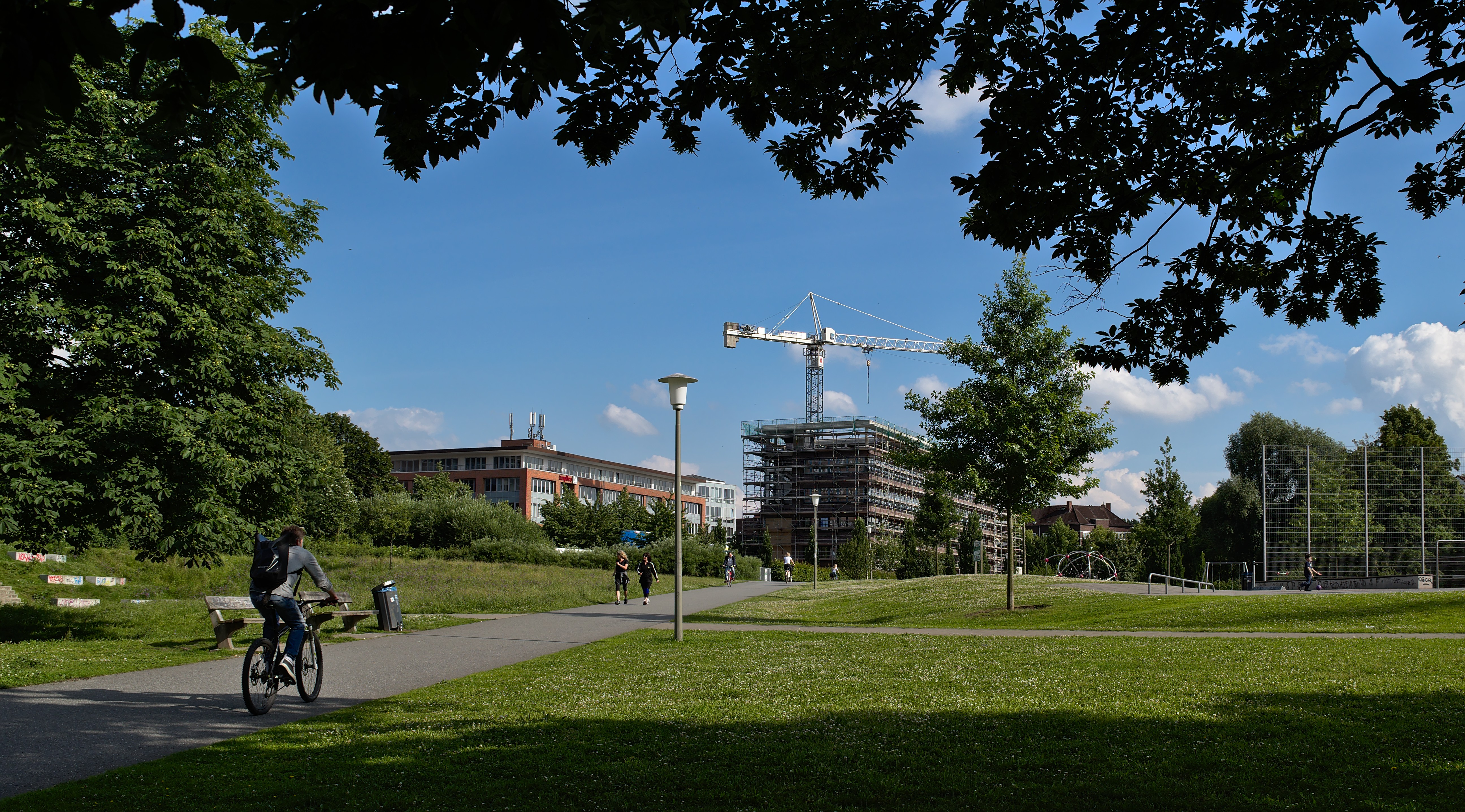 Johannes-Prassek-Park, Barmbek-Süd, Hamburg. View from northwest.